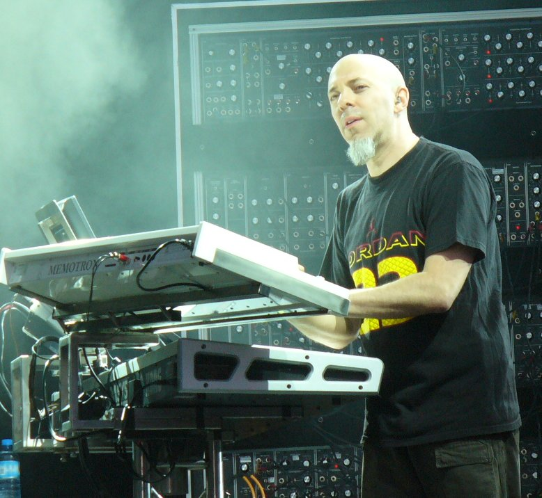 Jordan Rudess in Concert with Dream Theater